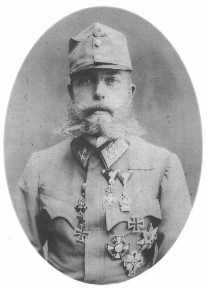 Archduke Joseph Ferdinand Salvator of Austria-Tuscany 1872-1942, Colonel General of Imperial-Royal Army, 1916-1918 General Inspector of K.u.K. Air Force, son of Grand Duke Ferdinand IV of Tuscany